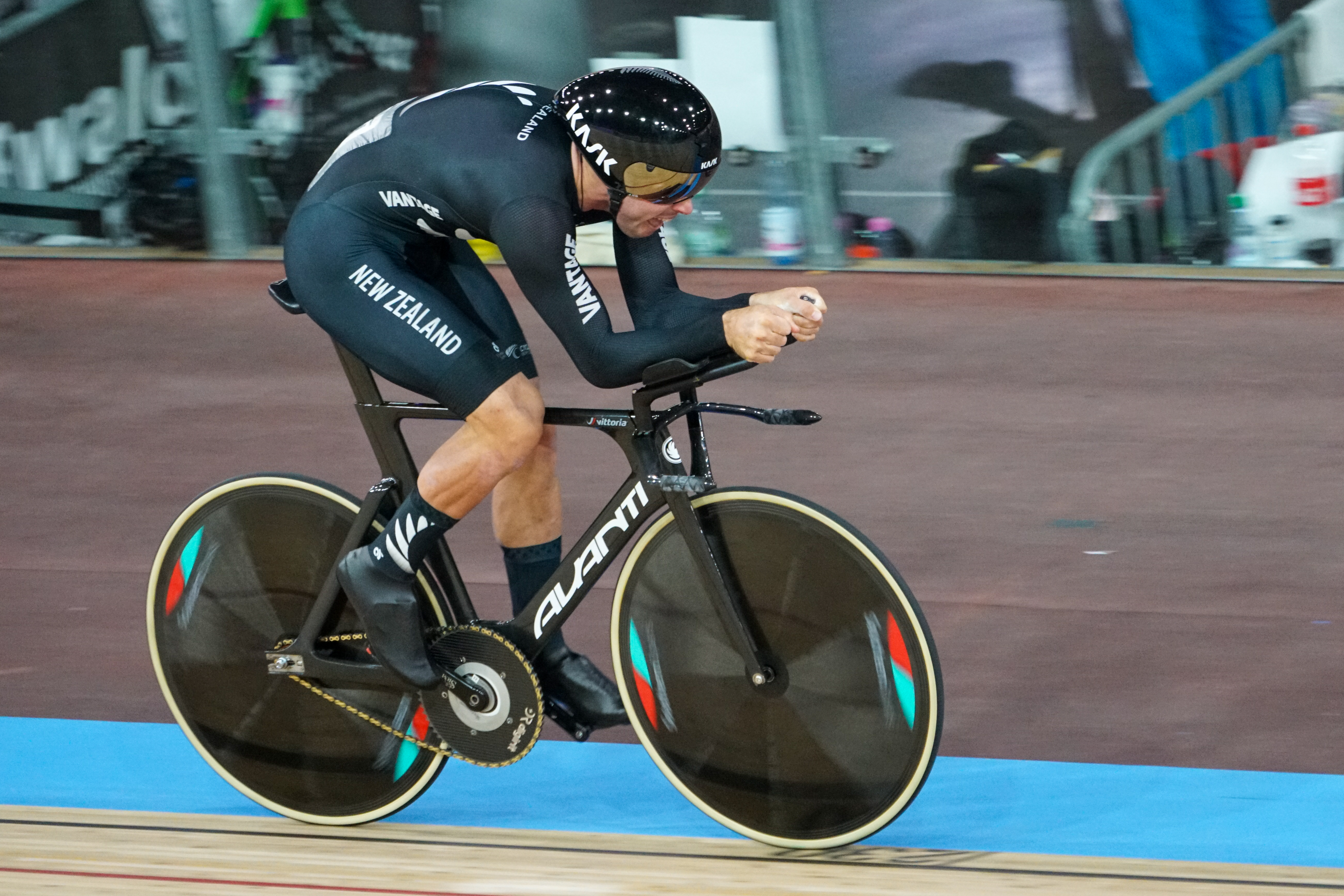 2020 UCI Track Cycling World Championships – Men's 1Km Time Trial – Qualifying